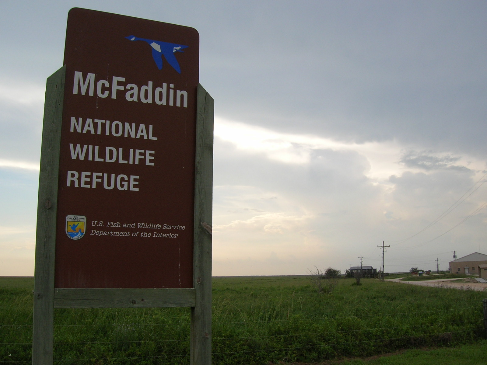 McFaddin National Wildlife Refuge on the Texas Gulf Coast.